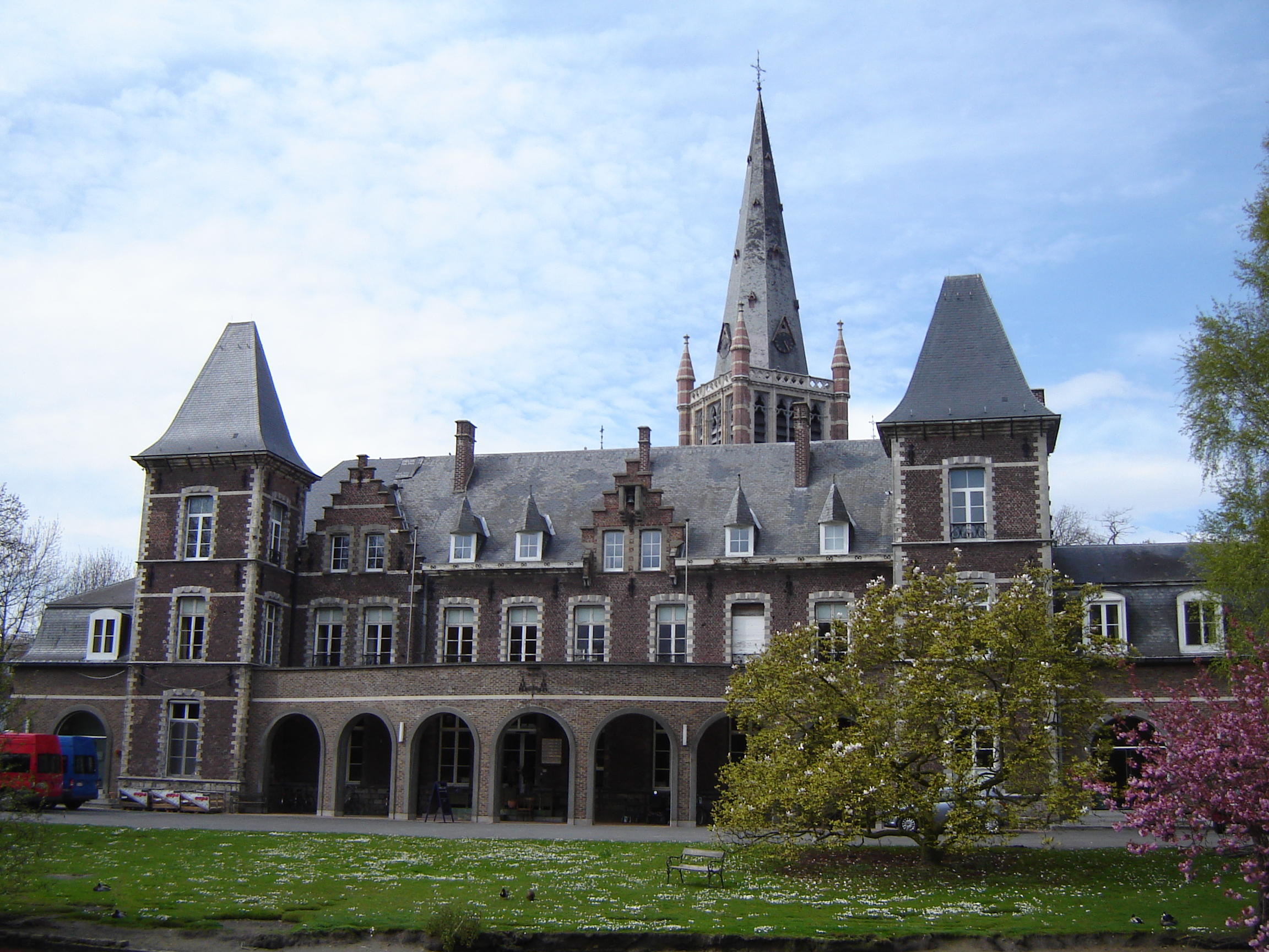 Castle site in Dadizele. Dadizele, Moorslede, West Flanders, Belgium